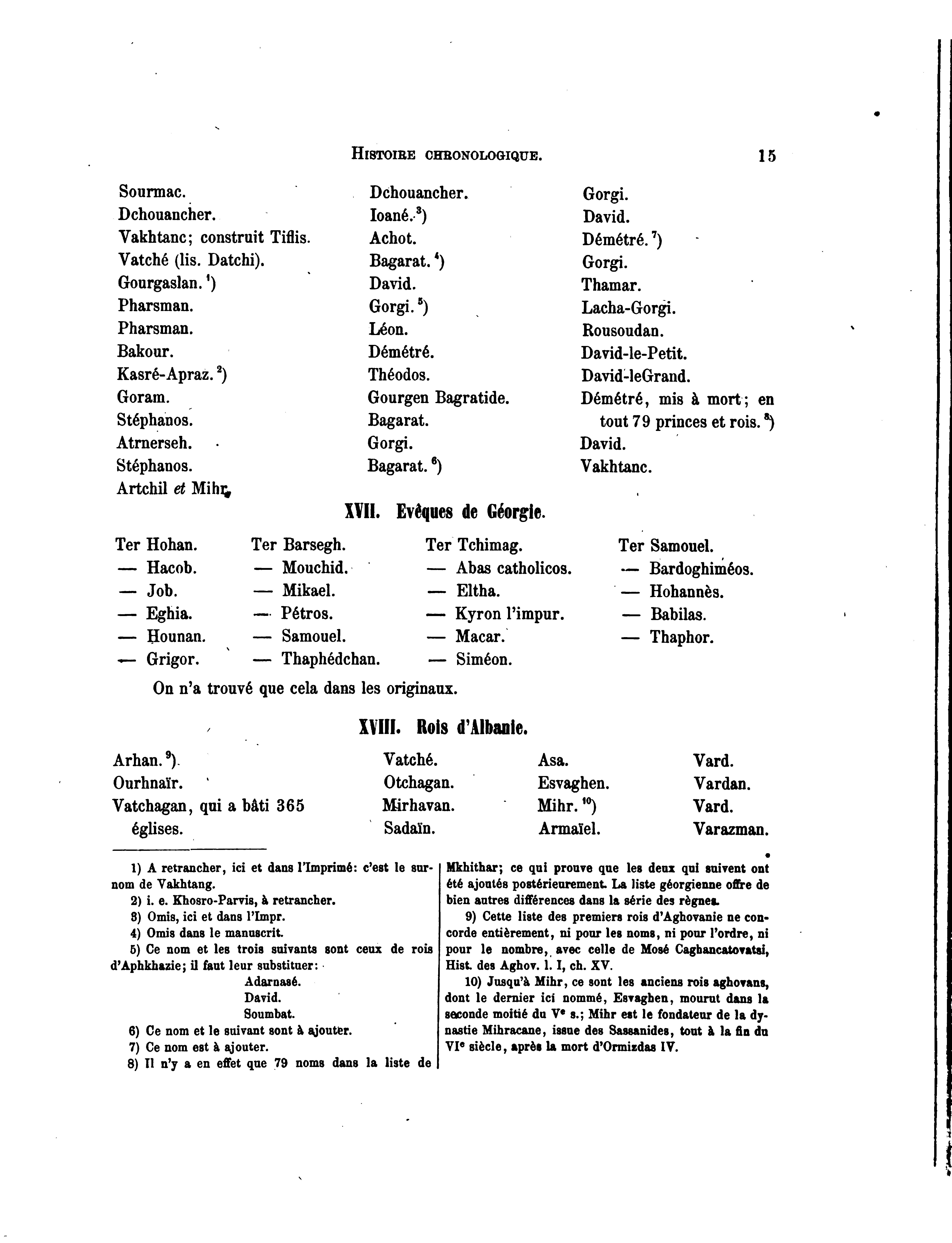 Historie Chronologie par Mikhthar D'Airivank - M. Brosset 1869 - Bishops of Georgia